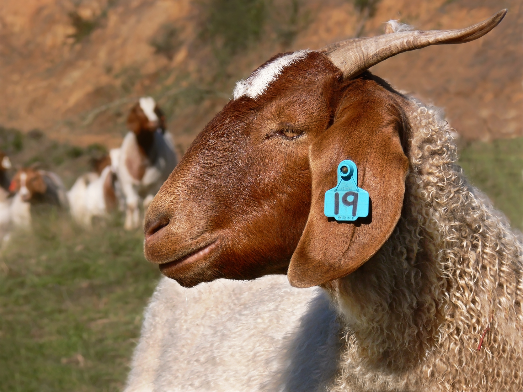 A female Boer goat on a farm in South East Australia, Ensay, Victoria.